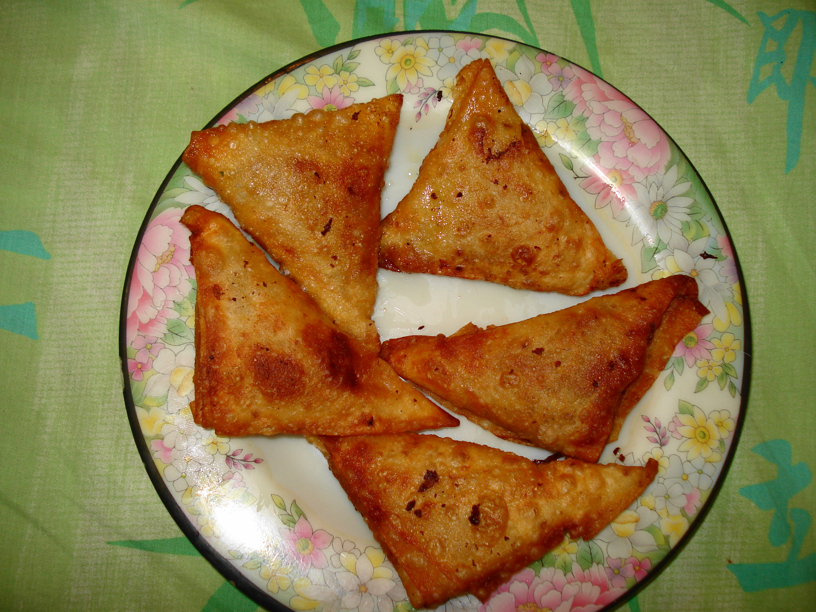 Samosa are most popular snack in pakistan especially in Ramadan